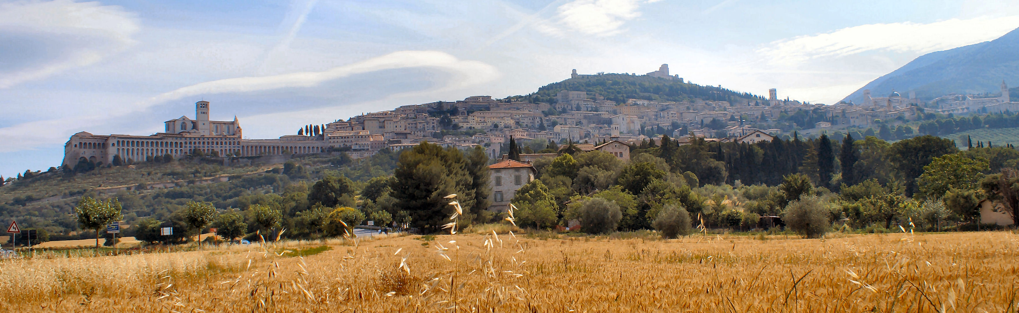 Assisi, view from the valley